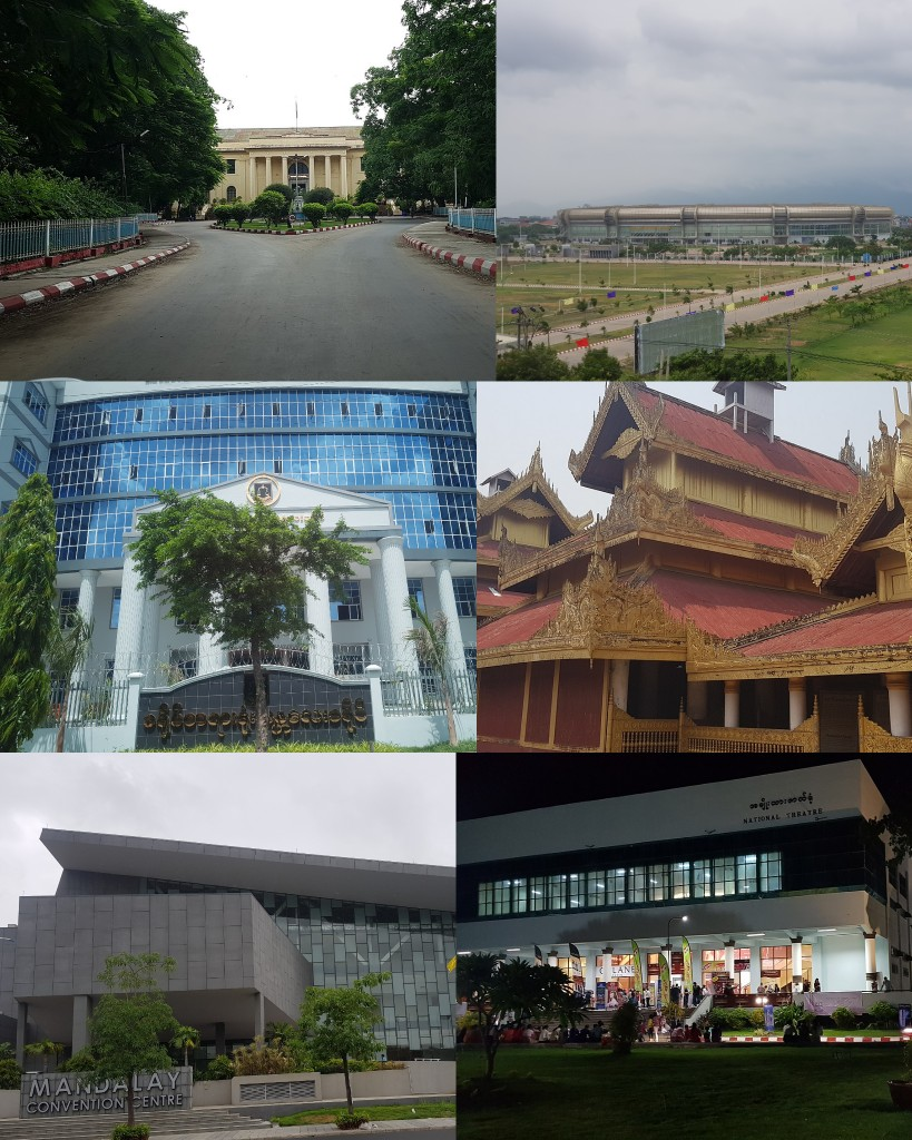 Clockwise from Top:Mandalay University, Mandalarthiri Stadium, Mandalay Palace, District Court, National Theatre and Convention Centre